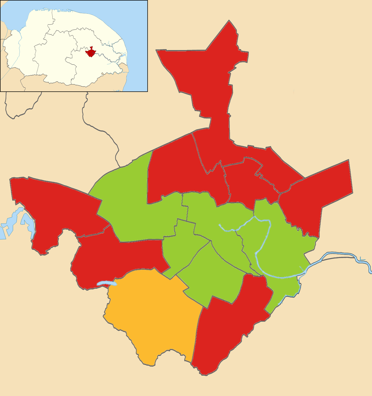 Results of the local elections in Norwich in 2010, 2011, 2012 and 2014 (the results were the same in each of these election years). Colours: Labour Liberal Democrat Green Party